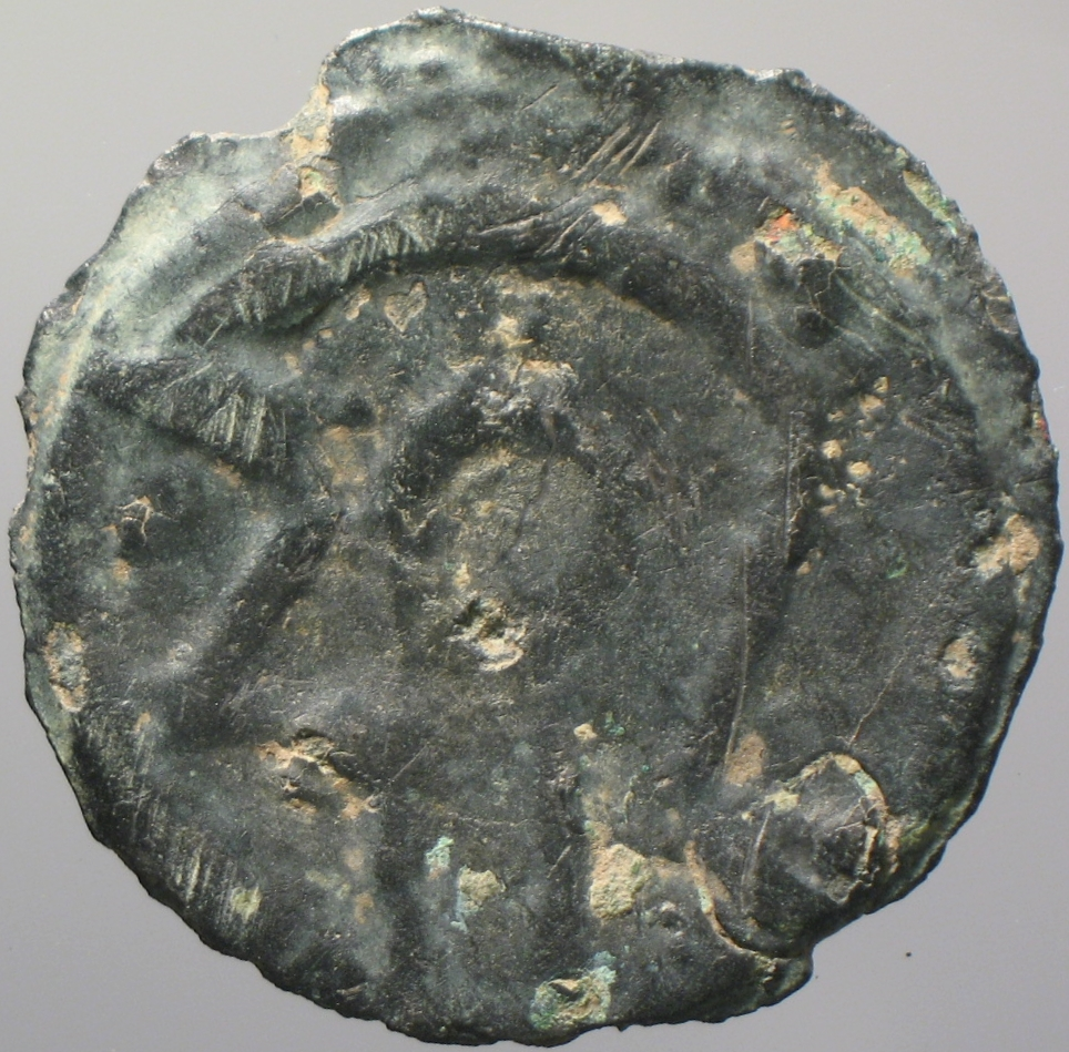 Iron Age coin : potin of the Cantiaci (obverse)